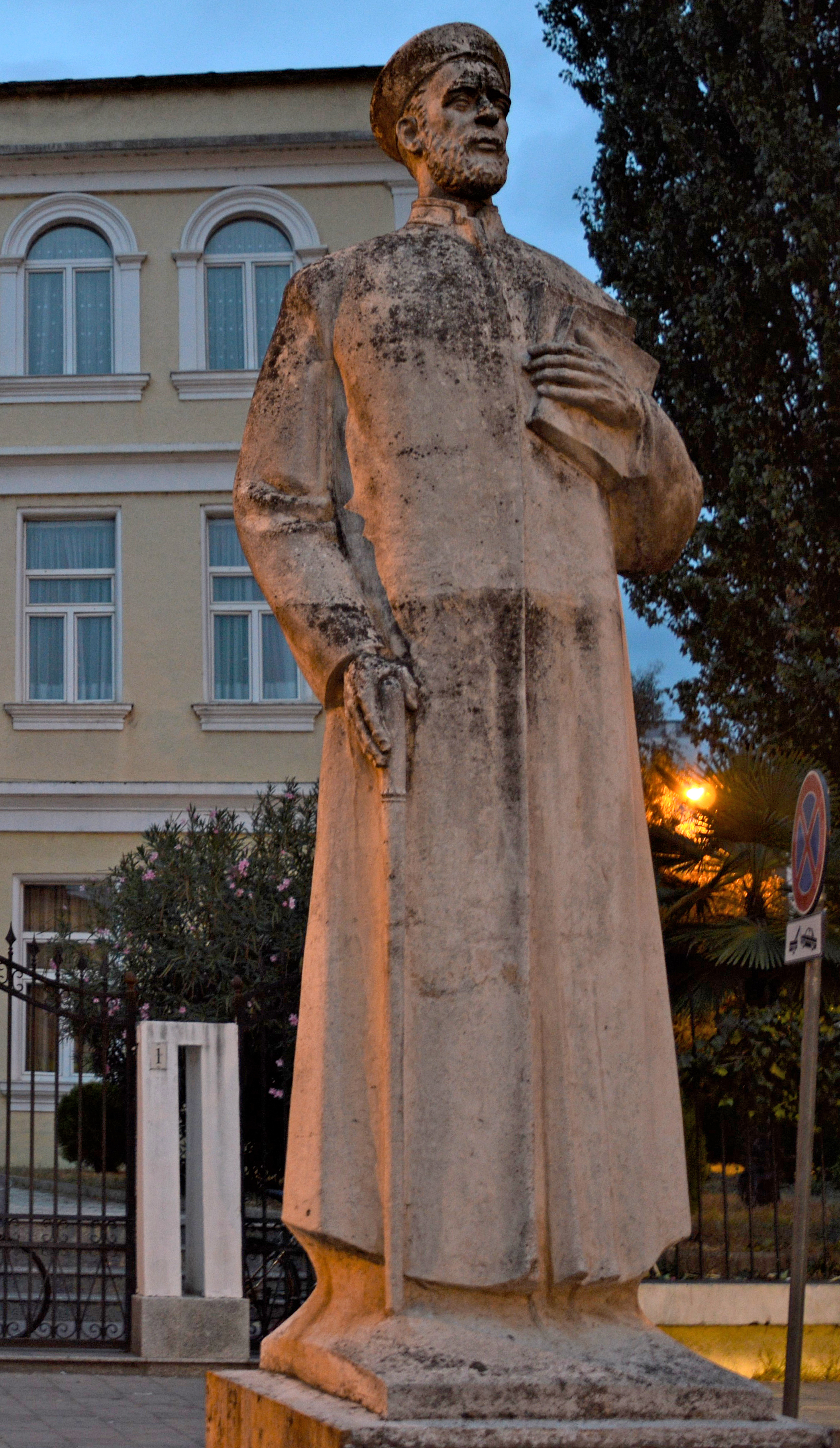 The statue of Hafiz Ibrahim Dalliu inf front of the Tirana Medrese